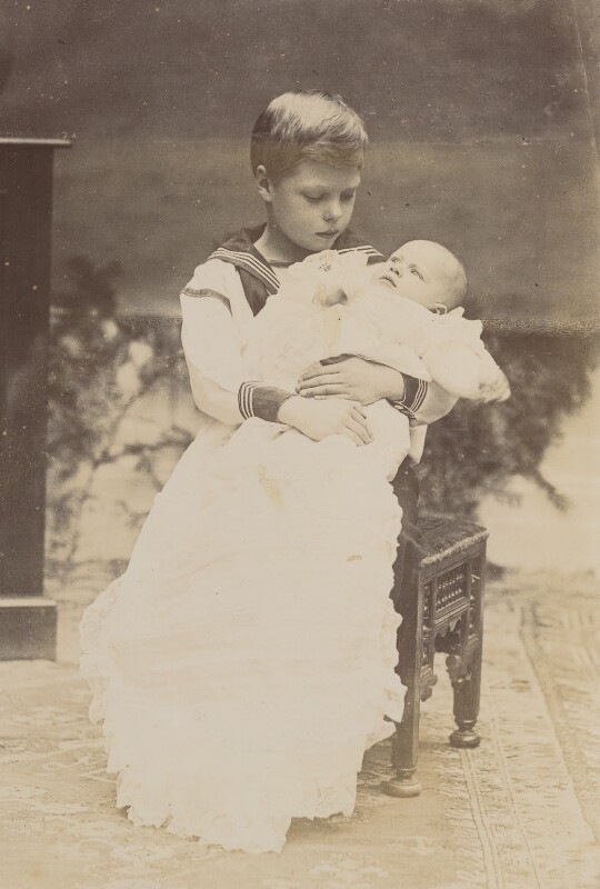 Prince George of Wales is held by his brother, Prince Edward of Wales, in 1903.